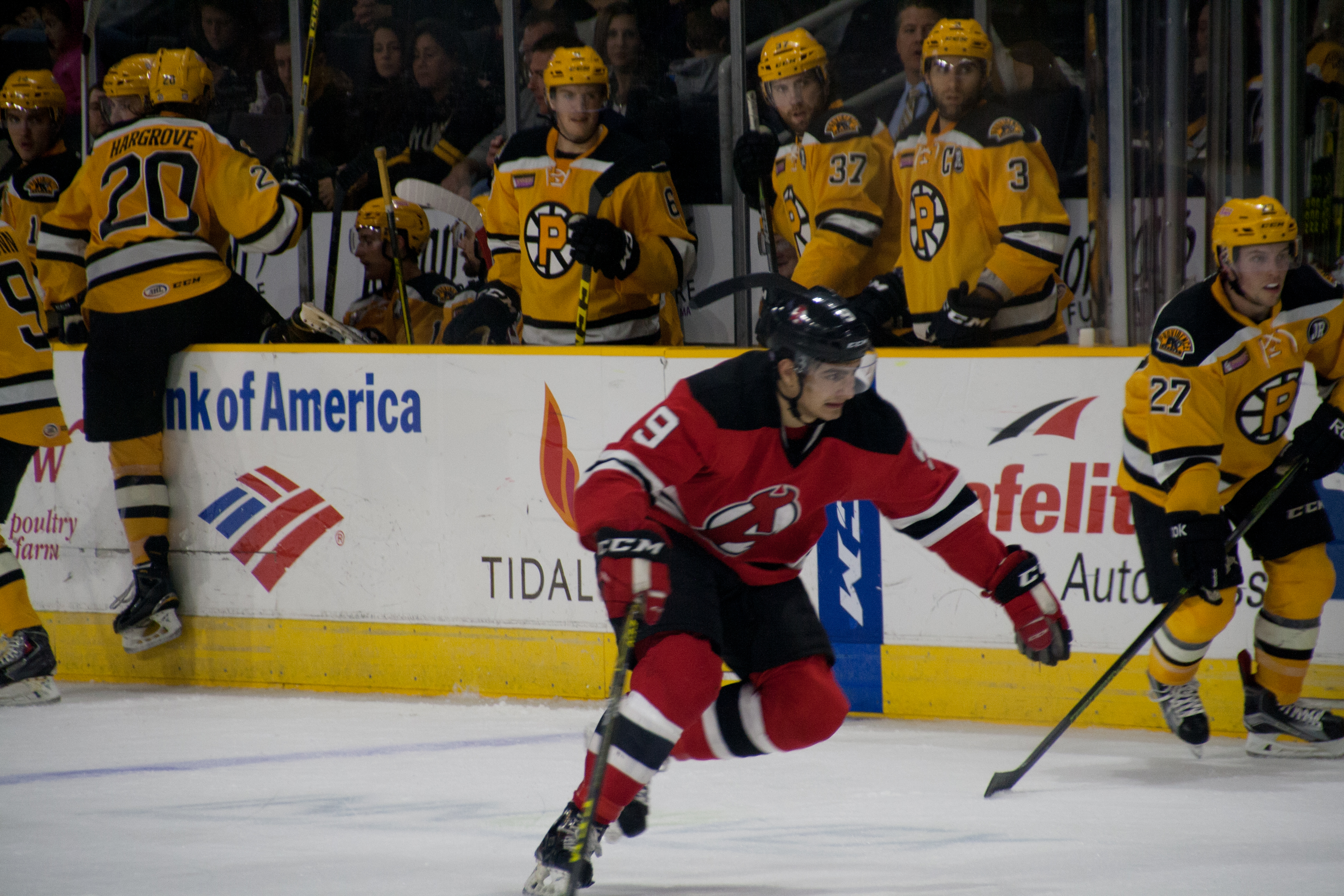 Joseph Blandisi with the Albany Devils